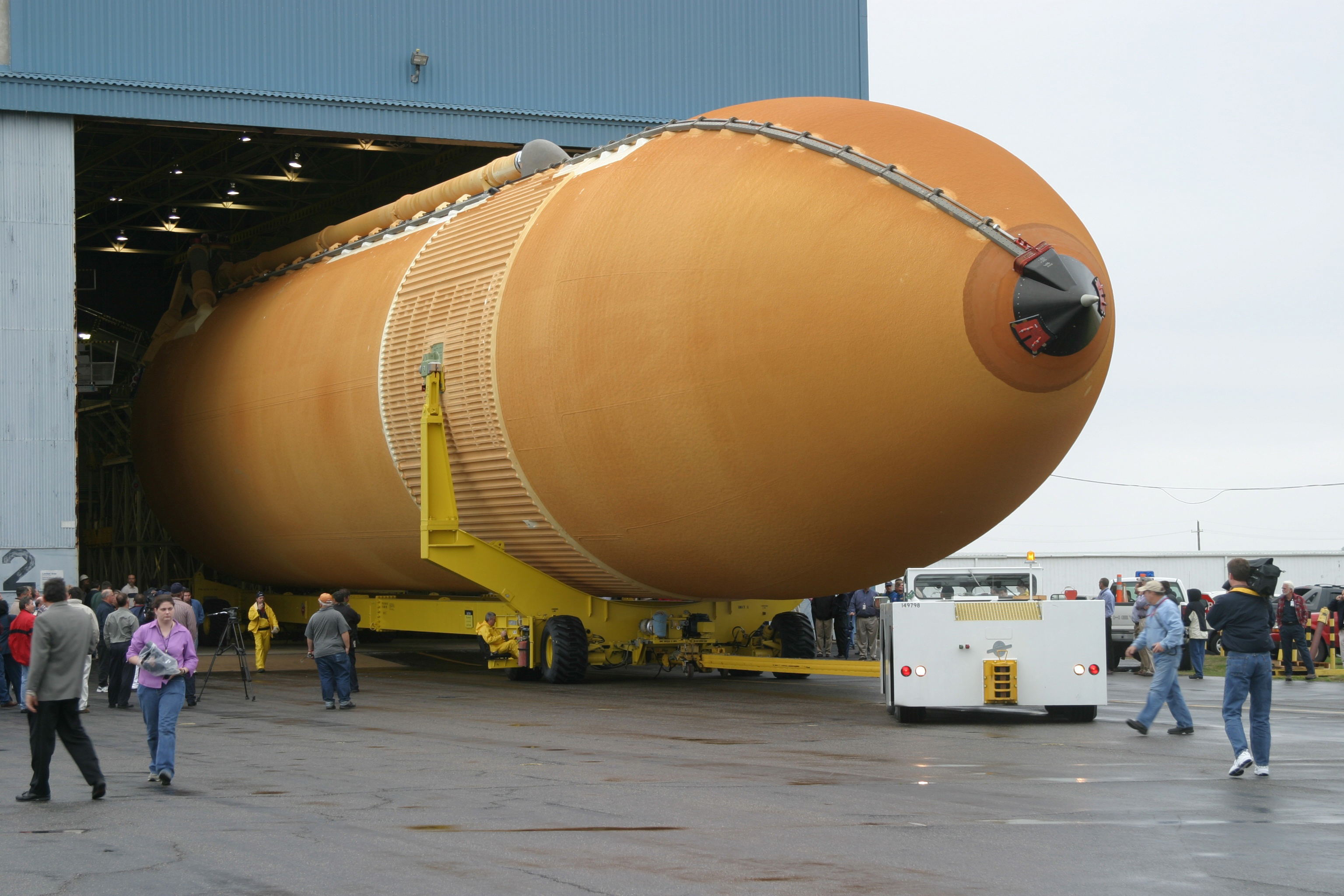 External tank 119 rolls out of the final assembly building at NASA's Michoud Assembly Facility in New Orleans on its way to the Kennedy Space Center in Florida to be mated with the solid rocket boosters and Space Shuttle Discovery for the STS-121 mission. The space shuttle's external tank was returned to the Michoud facility for safety modifications including removal of the Protuberance Air Load, or PAL, Ramps.